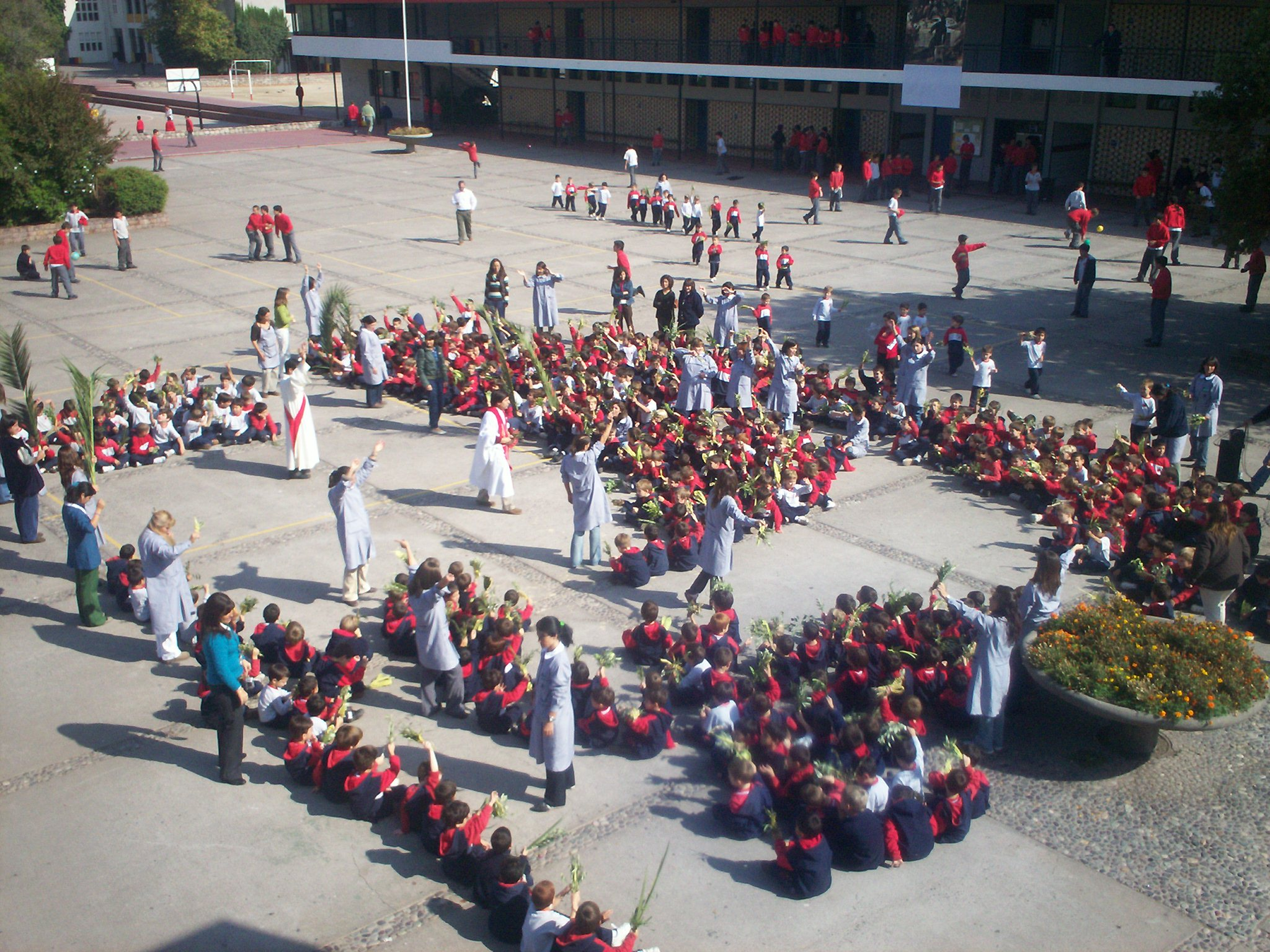 A Palm Sunday celebration at a school in Mexico.